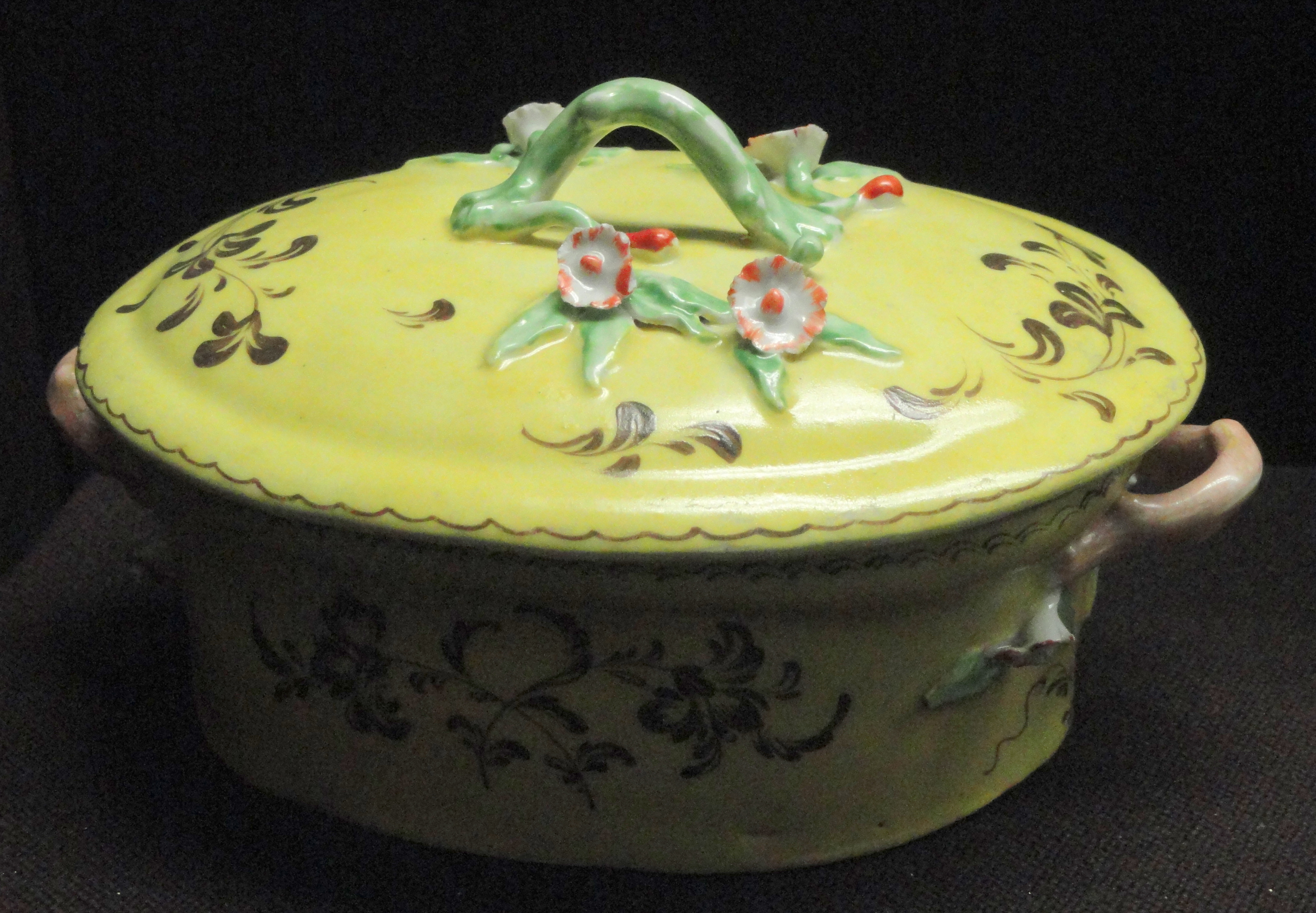 Exhibit in the Gardiner Museum, Toronto, Ontario, Canada. This artwork is in the public domain because the artist died more than 70 years ago.